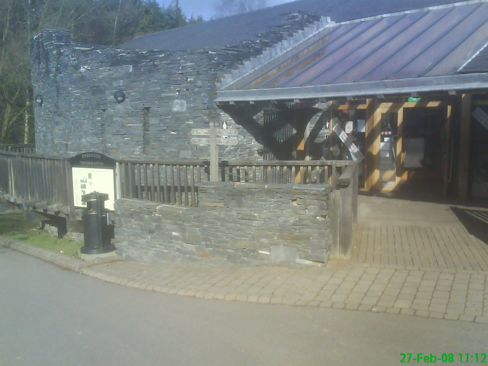 Offas Dyke Centre, Knighton